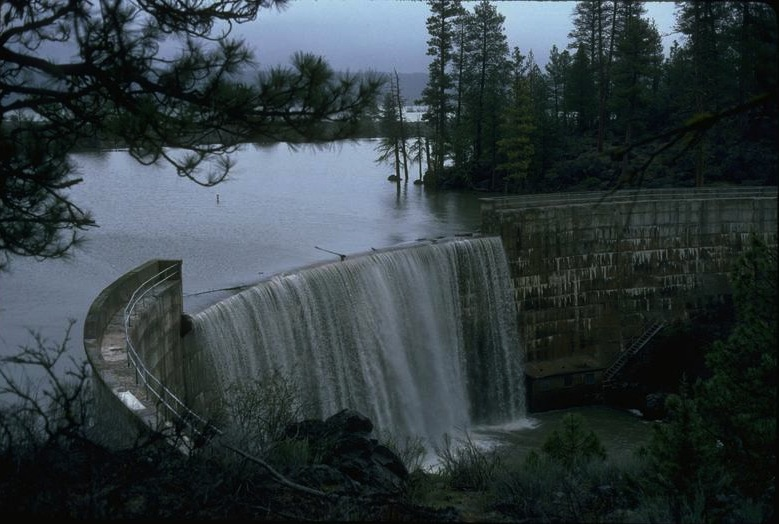 Gerber Dam, Bonanza Oregon, photo by the Bureau of Land Management, National and State Photo Library